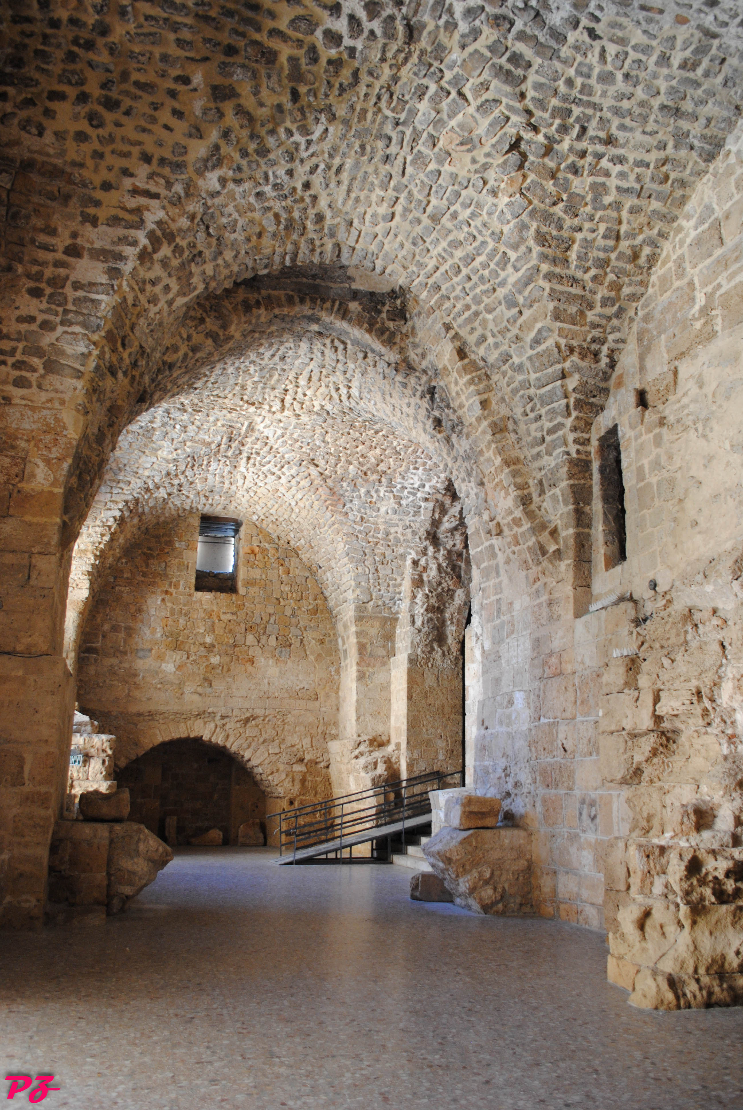 DSC_0016 Acre (city)